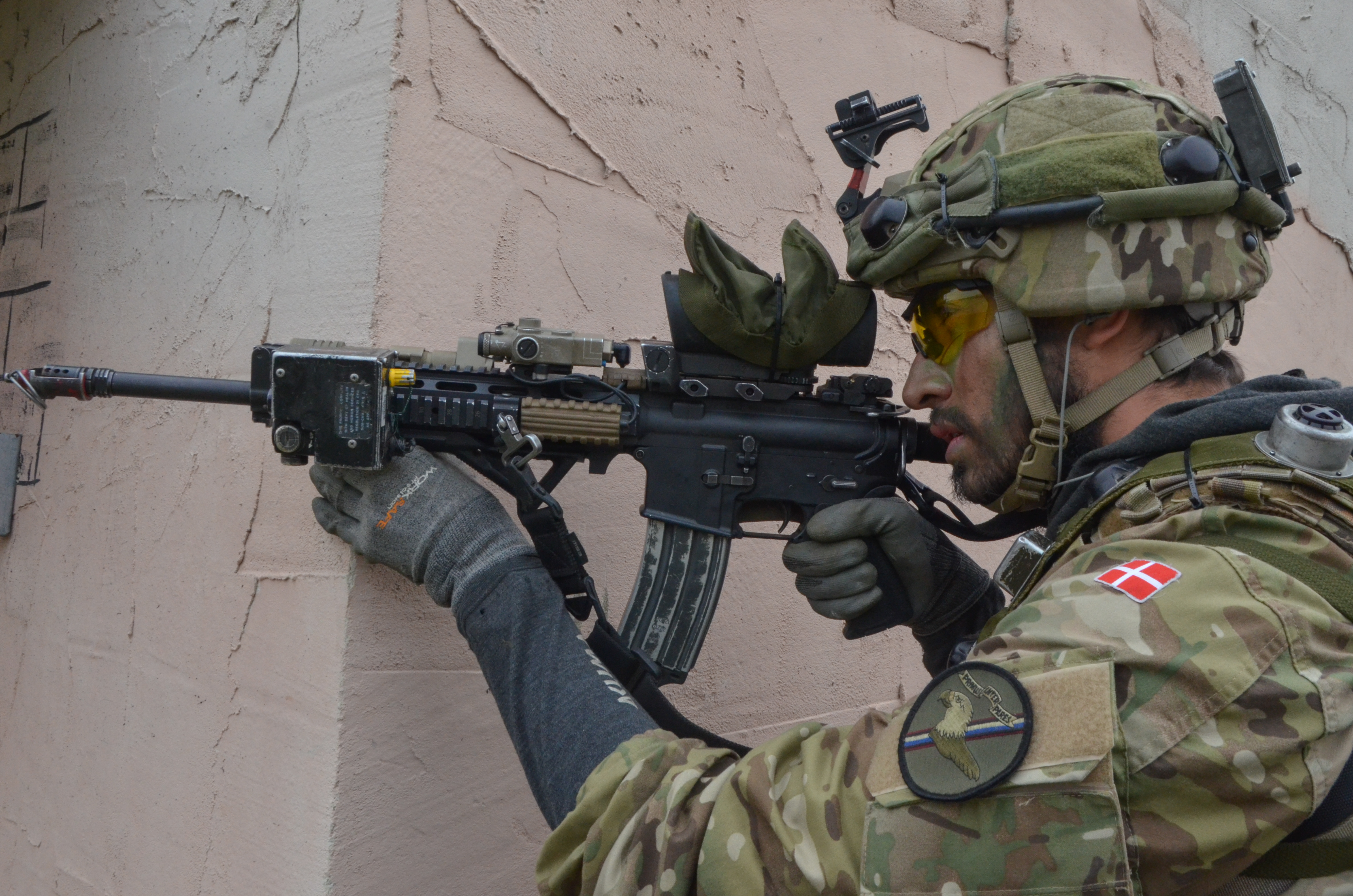 A Royal Danish soldier of Alpha Company, 3rd Reconnaissance Battalion, Guard Hussar Regiment scans his sector of fire while conducting cordon and search operations during exercise Combined Resolve III at the Joint Multinational Readiness Center in Hohenfels, Germany, Nov. 3, 2014. Combined Resolve III is a multinational exercise, which includes more than 4,000 participants from NATO and partner nations, and is designed to provide a complex training scenario that focuses on multinational unified land operations and reinforces the U.S. commitment to NATO and Europe. (U.S. Army photo by Pfc. Shardesia Washington/Released)